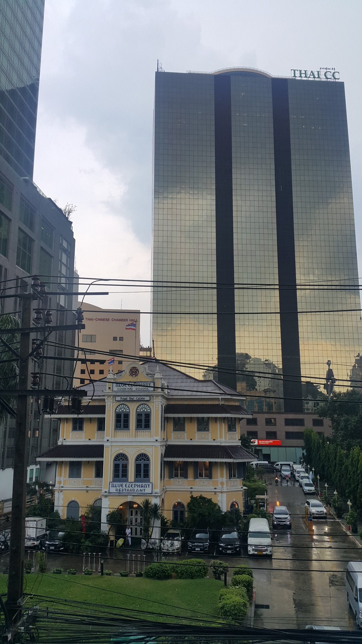 Thai CC Tower in Sathon (the skyscraper) and Blue Elephant Thai Cooking School and Restaurant